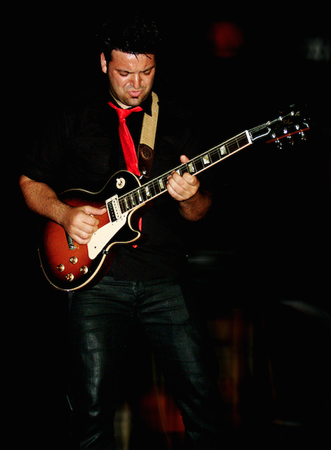 Live in European Tour 2014